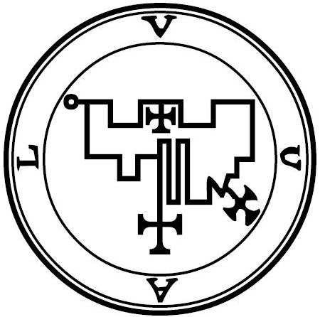 Vual seal, THE BOOK OF THE GOETIA OF SOLOMON THE KING (1904)